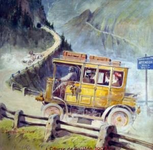 1902 Gaillon hillclimbing race by Louis Trinquier-Trianon